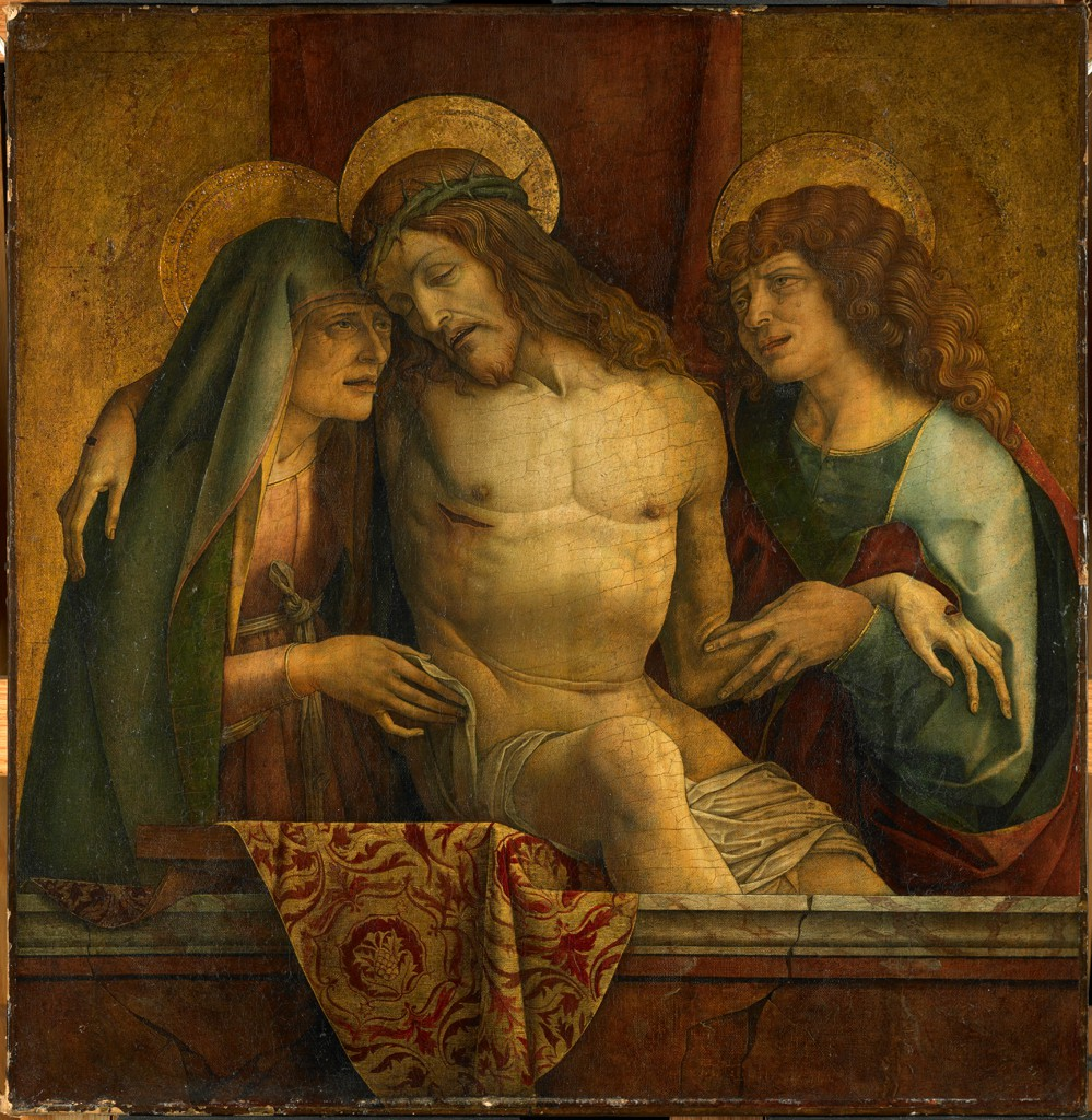 with extensive changes by Luigi Cavenaghi